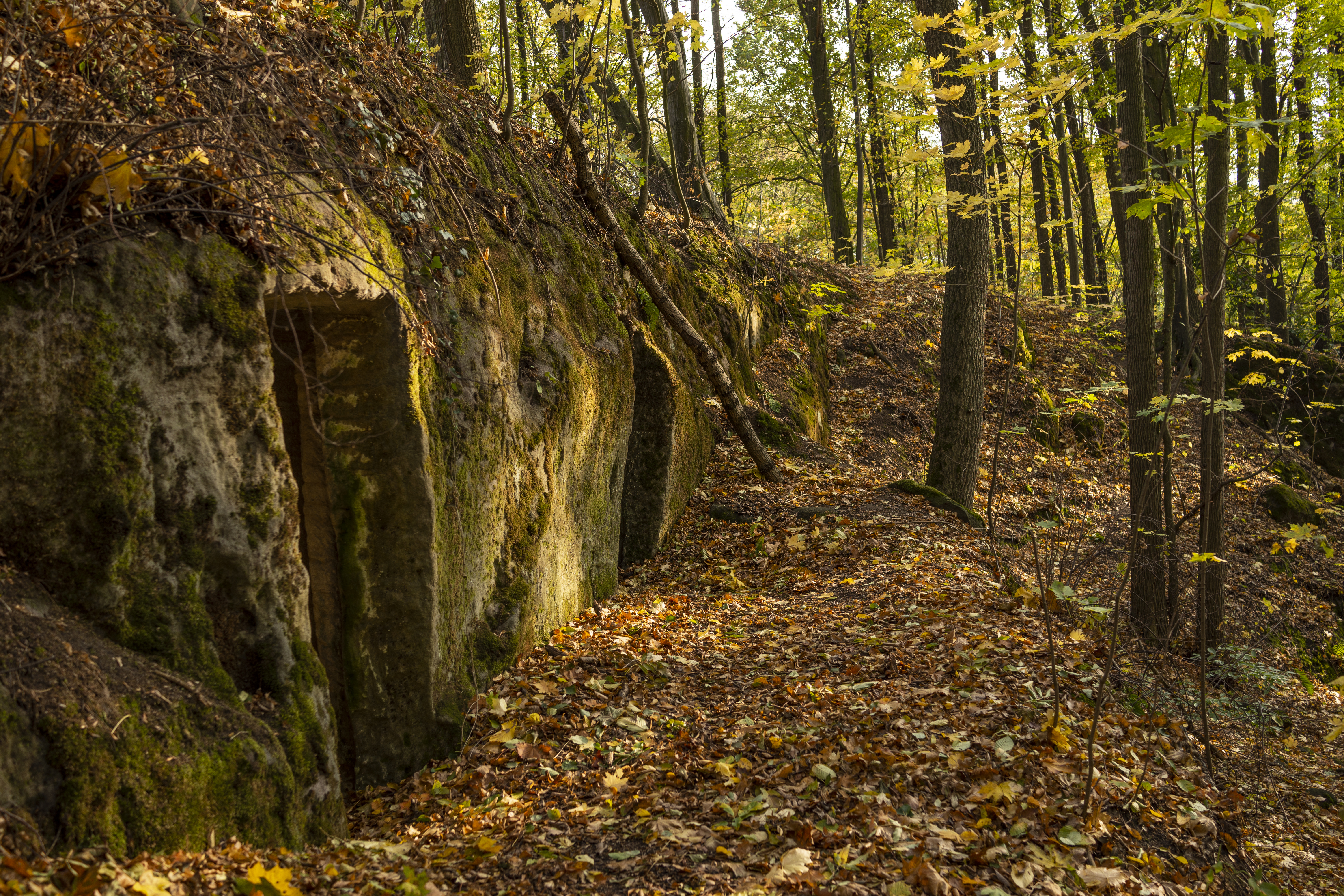 Natural monument Kanon potoka Kolne (Kolne stream canyon), Czech Republic. Man made caves.